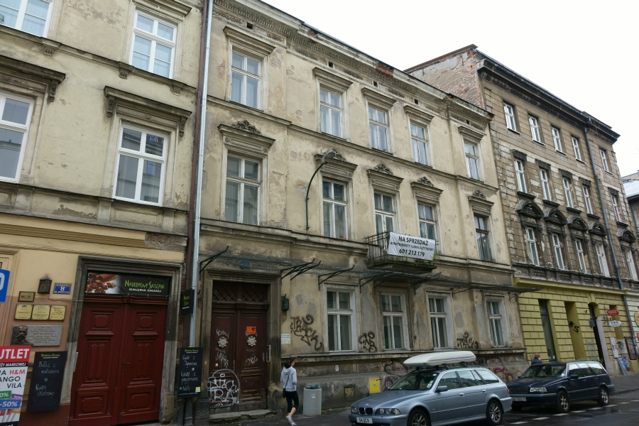 tenement house 10 Krupnicza Street in Kraków